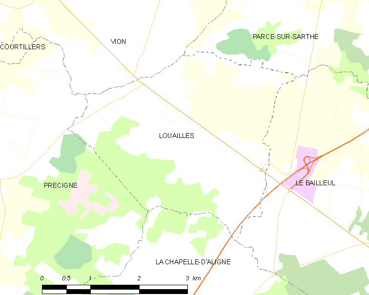 Map of French municipality